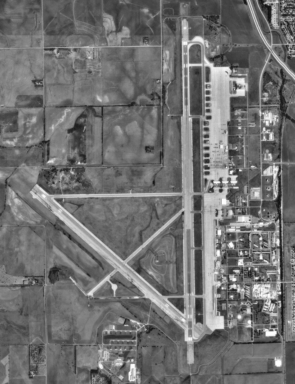 USGS orthophoto of Salina Municipal Airport, formerly Schilling Air Force Base and Smoky Hill Air Force Base, in Kansas, United States